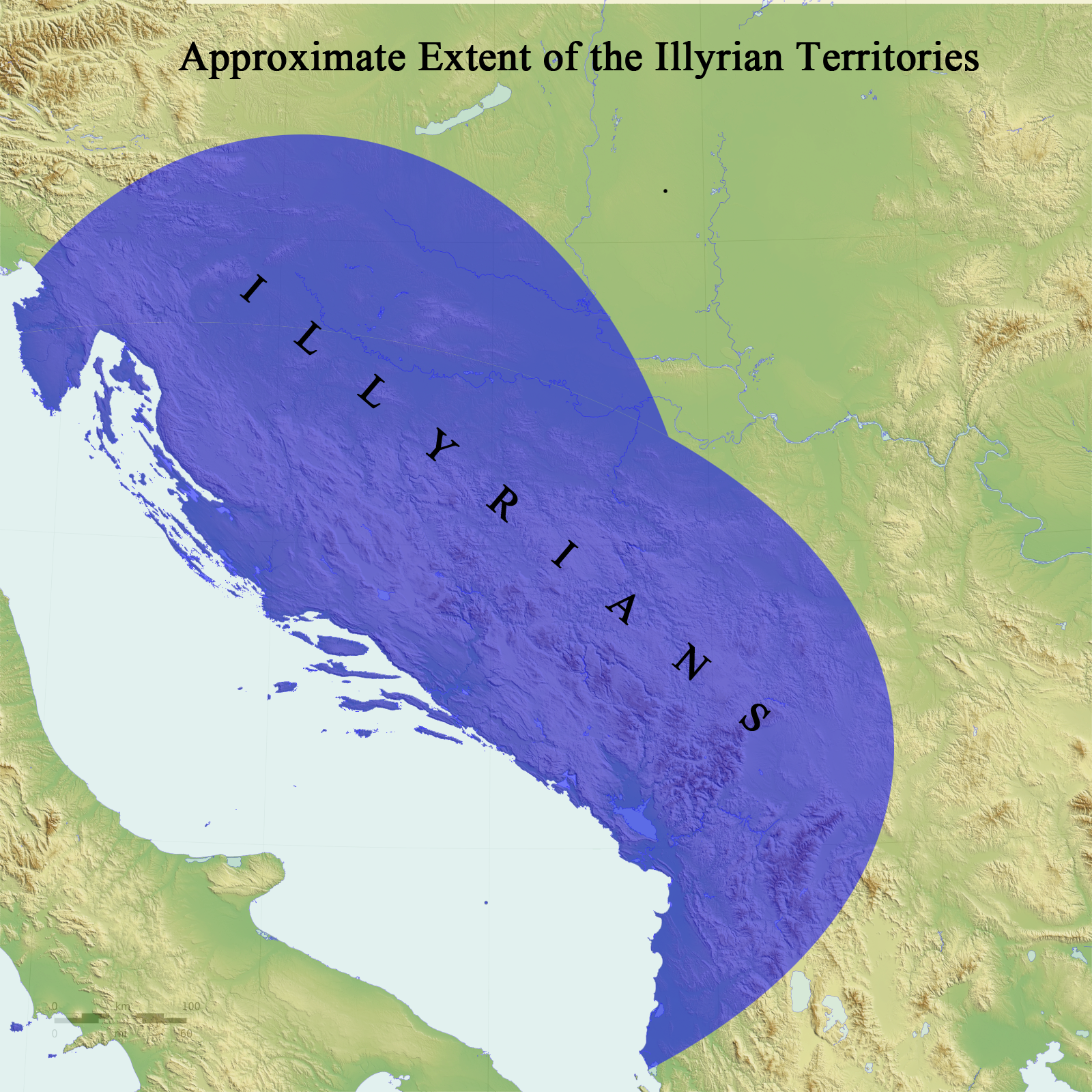 Approximate Extent of the Illyrian Territories carte des tribus illyriennes illyrische Stamme Karte Mappa di tribu illiriche mapa de tribos ilirias Mapa Ilirske plemena mapa de las tribus de Illyrian Fiset ilire harte Χάρτης Ιλλυριών φυλών Карта из иллирийских племен Мапа илирског племена